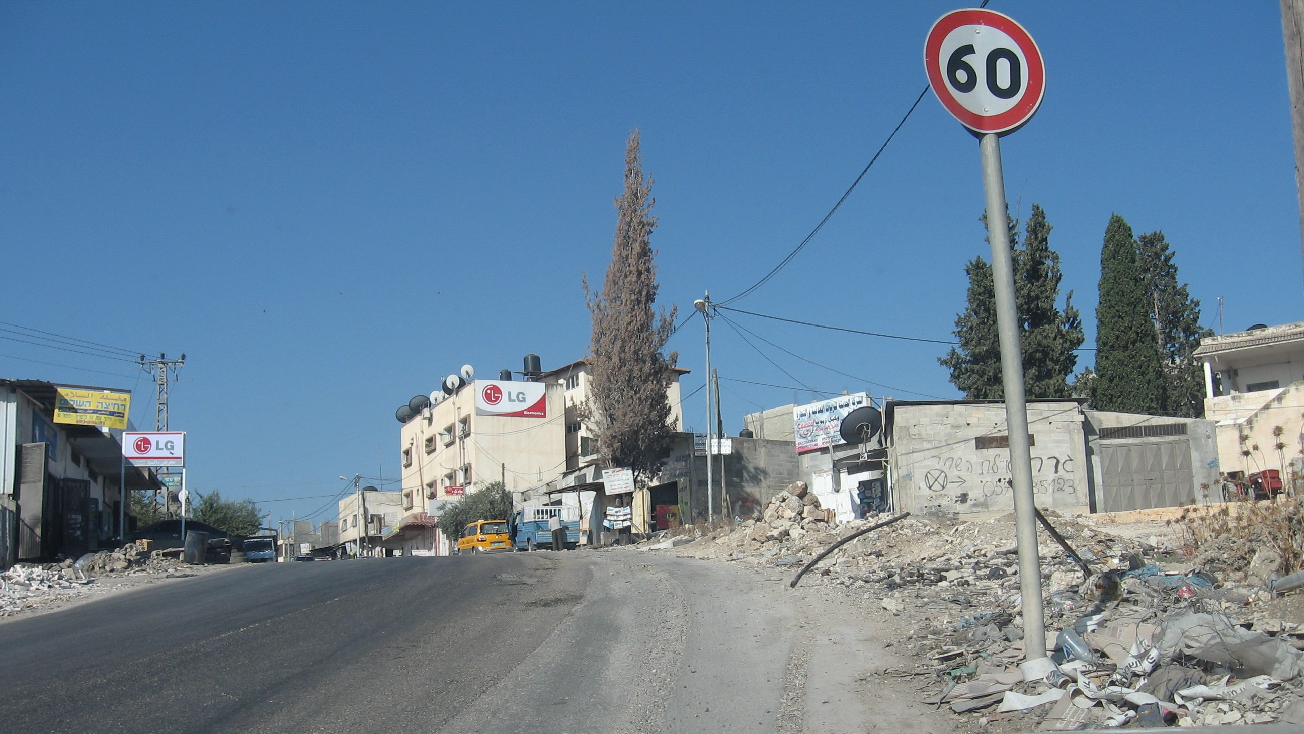 Zoldan_Monument_Right_to_entrance_to_Al_Funduq